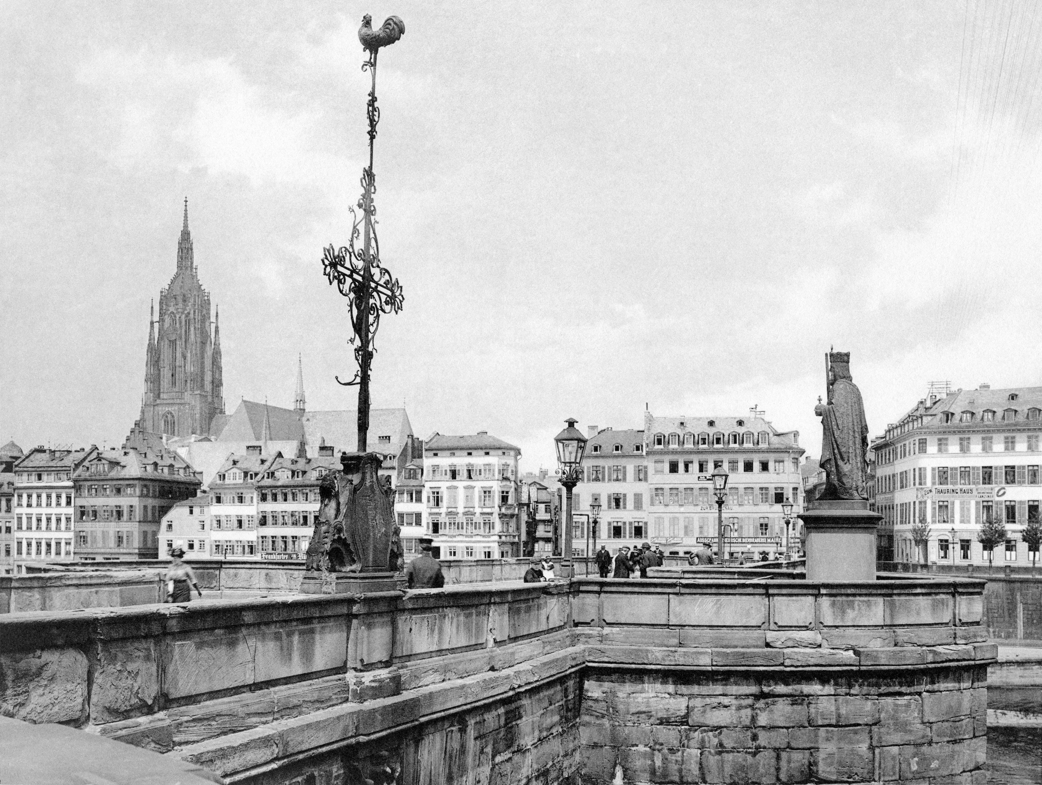 Issue 26, Table 303 / Title on the table: Bridge with the monument of Charlemagne. / Original description: [Follows]